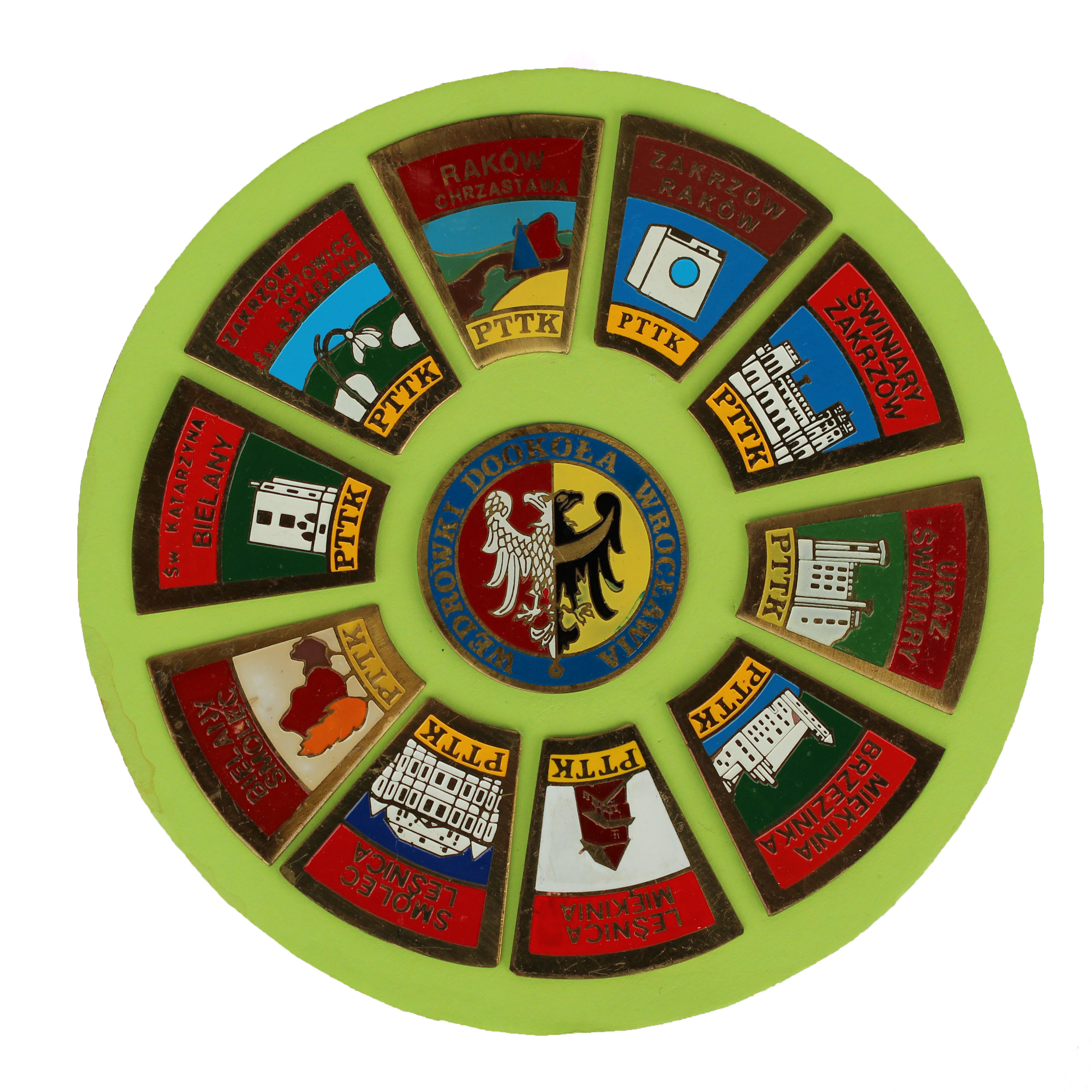 Tourist badge "Wędrówki dookoła Wrocławia" (Hiking around Wrocław)